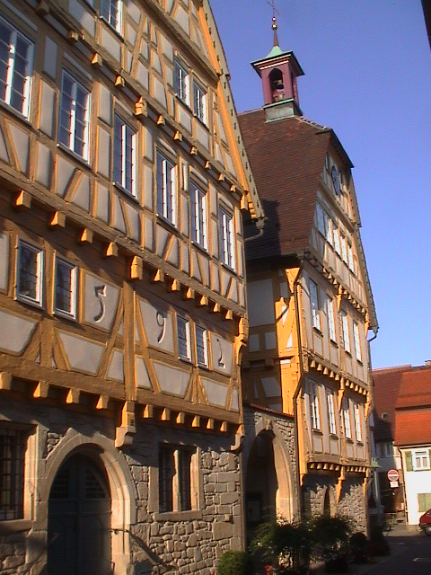 Former town hall in Sindelfingen, Germany. Now used as museum